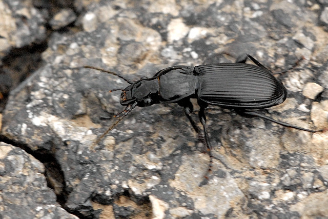 Pterostichus melanarius from Commanster, Belgian High Ardennes .